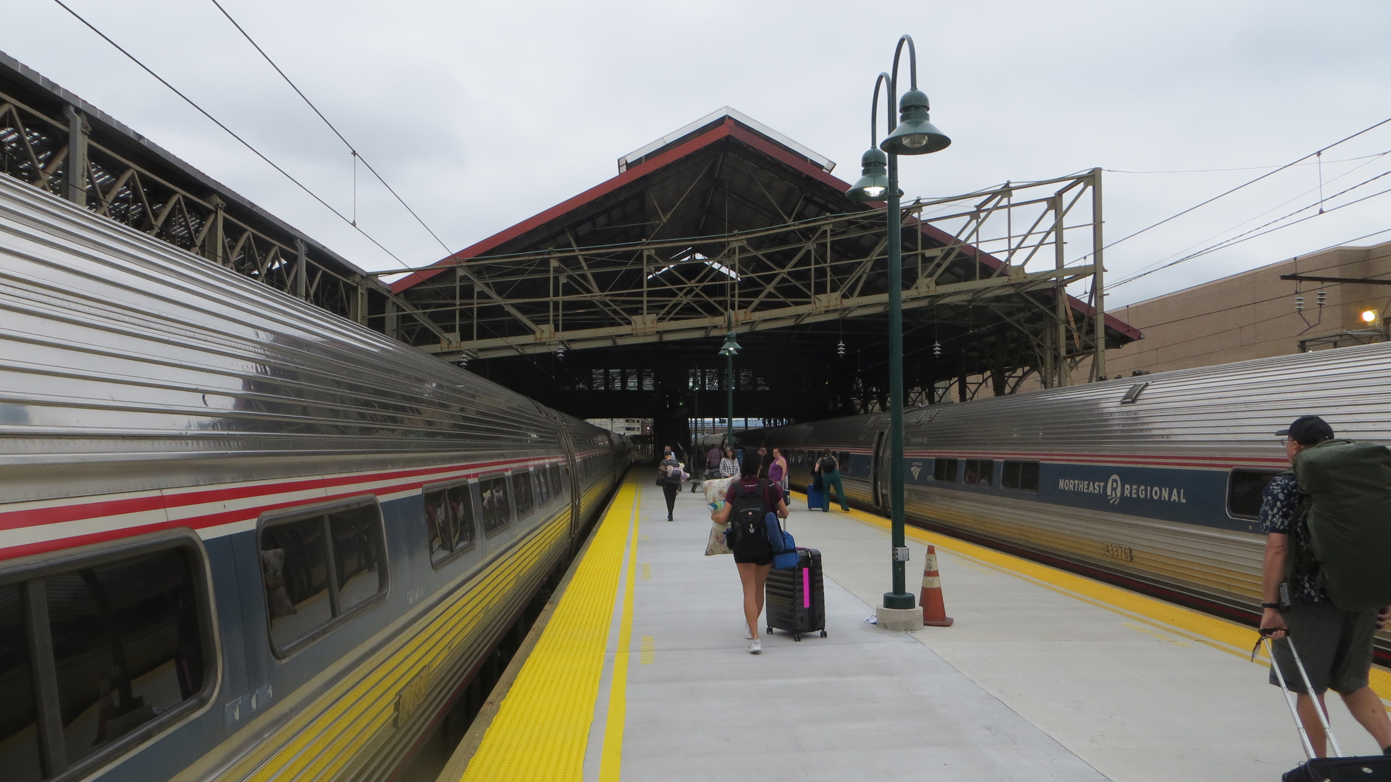 Two trains at Harrisburg station in September 2018. At right is the eastbound Pennsylvanian; at left is a Keystone Service train.